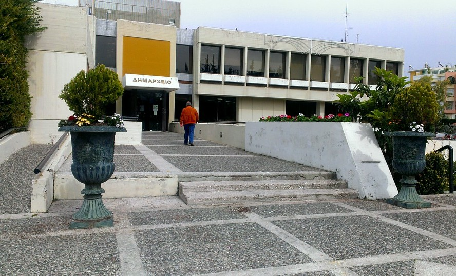 xolargos